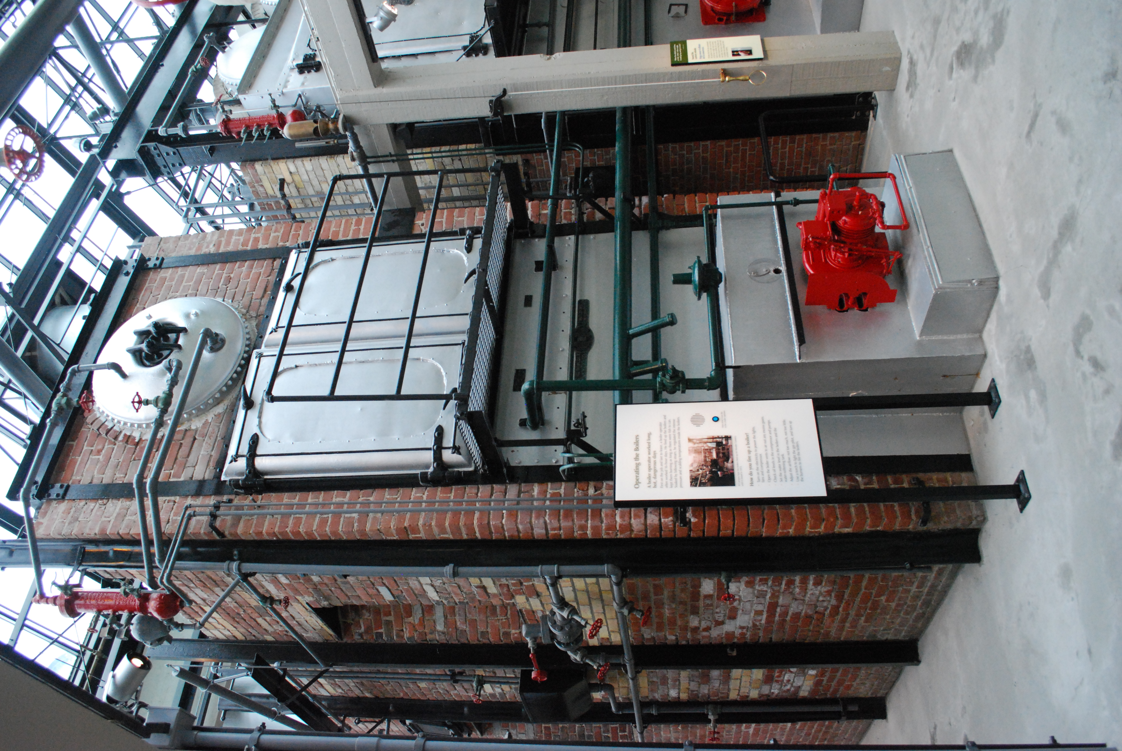 (Obsolete) Steam power sources in the Monterey Bay Aquarium